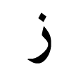 Letter Zāī of the arabic abjad